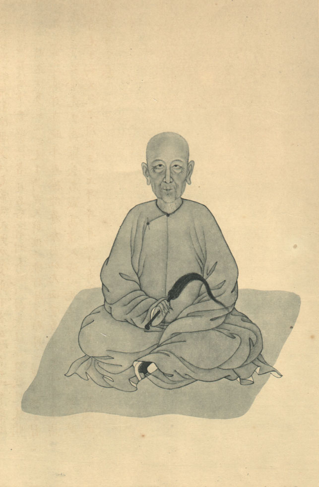 Sheng Fusheng, politician of the Qing Dynasty.